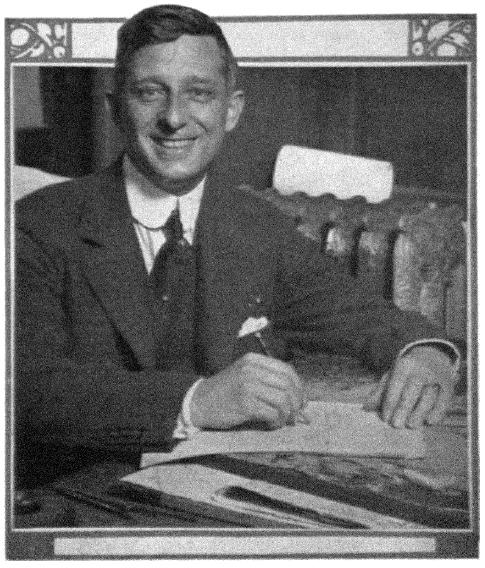 Publicity photograph of author Howard R. Garis. Original caption: "Howard M.[sic] Garis, Author and Originator of the Uncle Wiggily Stories"